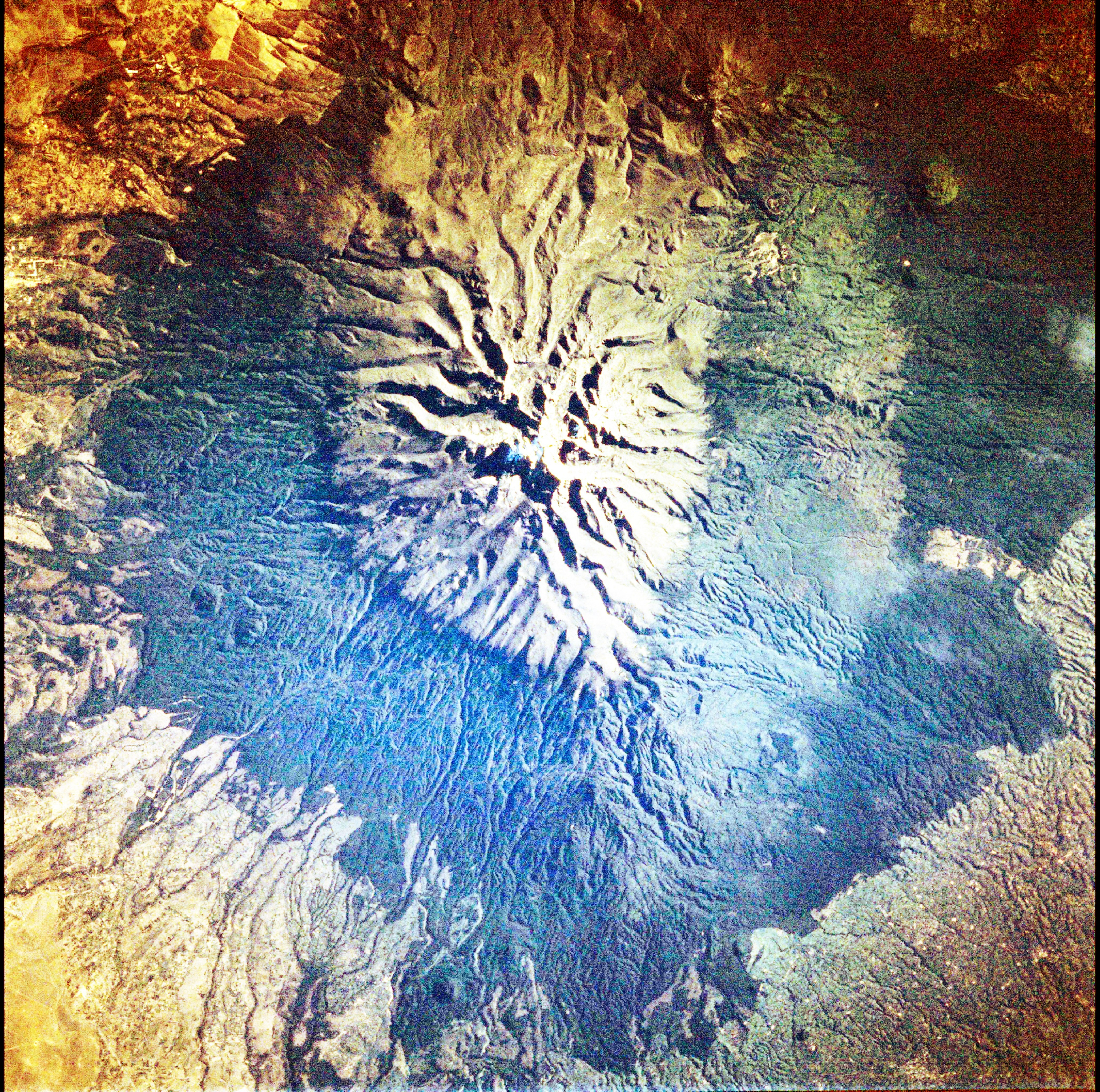 35mm photograph of Mount Kenya from shuttle mission STS099. North is approximately 45° left of vertical.